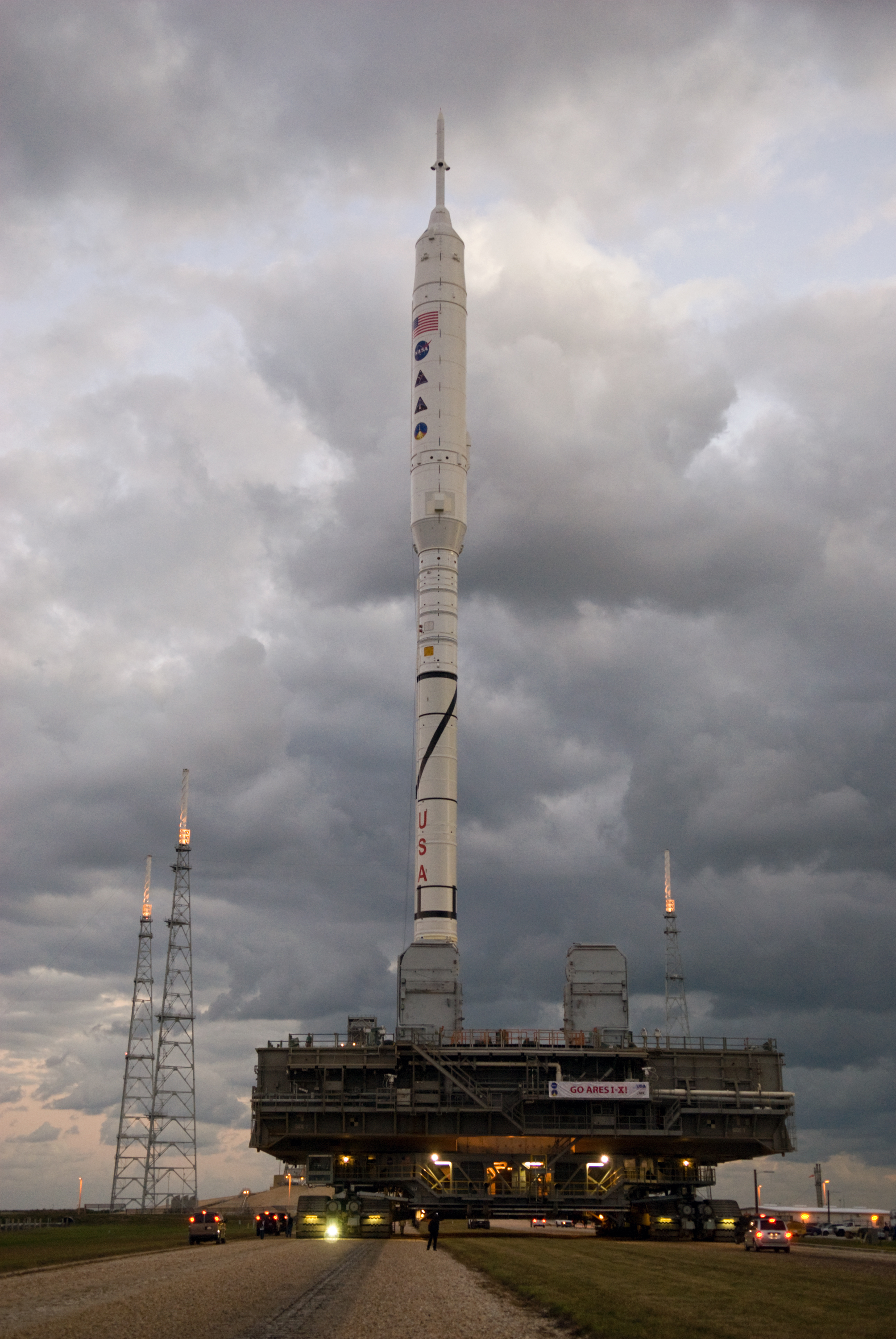 As the sun rises over Launch Pad 39B at NASA's Kennedy Space Center in Florida, the 327-foot-tall Ares I-X rocket, secured to a mobile launcher platform, approaches the pad's perimeter fence. The test rocket left the Vehicle Assembly Building at 1:39 a.m. EDT on its 4.2-mile trek to the pad and was "hard down" on the pad’s pedestals at 9:17 a.m. The transfer of the pad from the Space Shuttle Program to the Constellation Program took place May 31. Modifications made to the pad include the removal of shuttle unique subsystems, such as the orbiter access arm and a section of the gaseous oxygen vent arm, along with the installation of three 600-foot lightning towers, access platforms, environmental control systems and a vehicle stabilization system. Part of the Constellation Program, the Ares I-X is the test vehicle for the Ares I. The Ares I-X flight test is targeted for Oct. 27. For information on the Ares I-X vehicle and flight test, visit